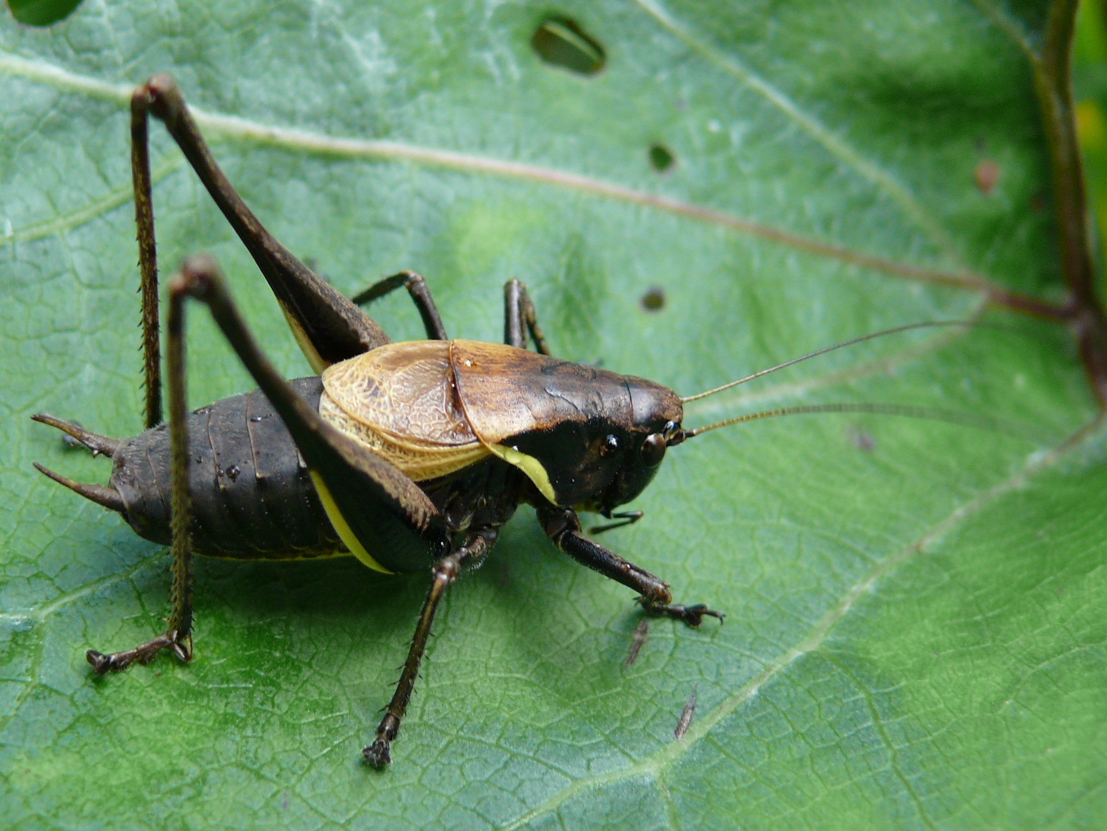 Male Pholidoptera aptera, picture taken in the Bavarian Alps, Germany